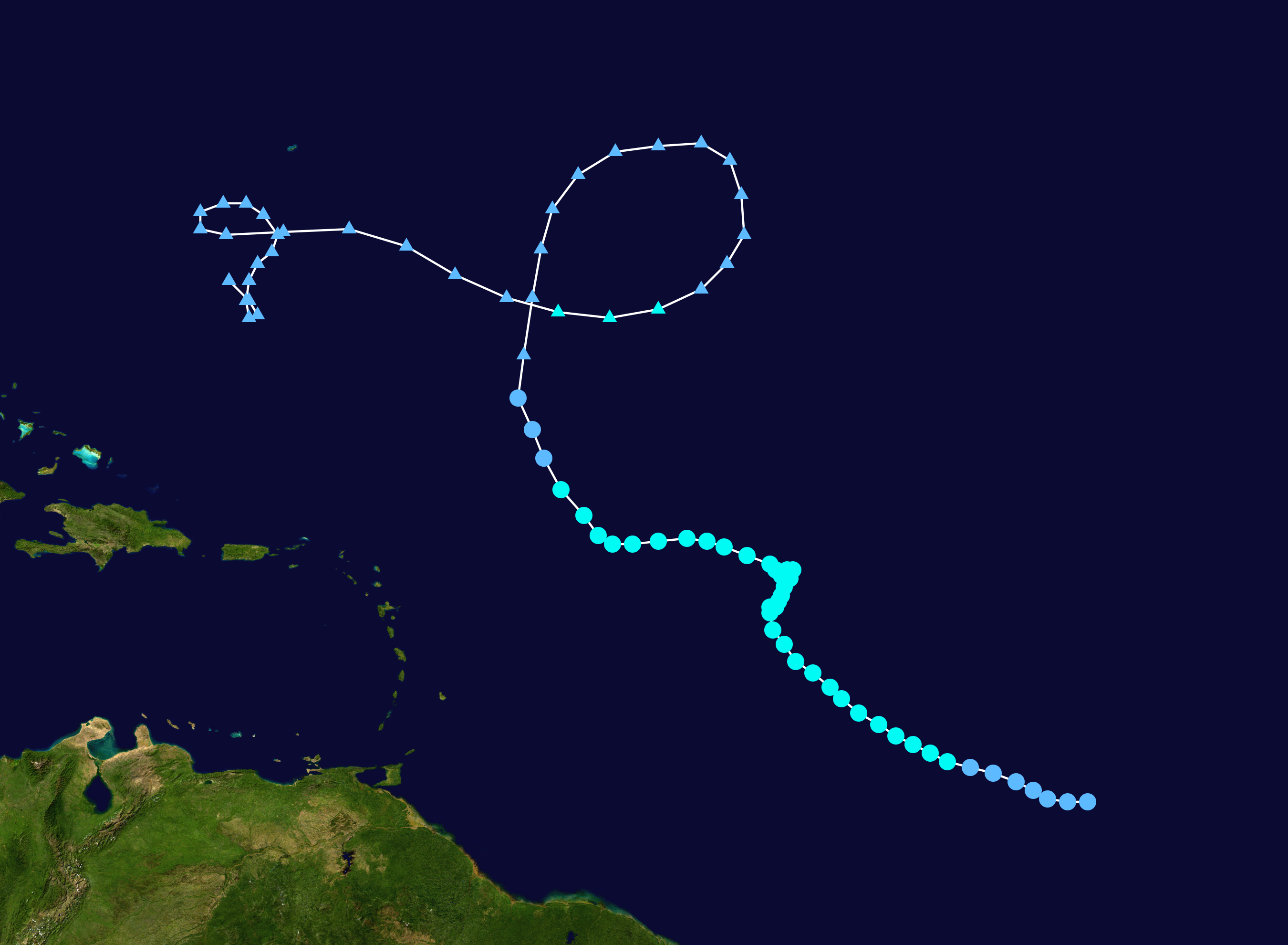 Track map of Tropical Storm Nicholas of the 2003 Atlantic hurricane season. The points show the location of the storm at 6-hour intervals. The colour represents the storm's maximum sustained wind speeds as classified in the Saffir–Simpson scale (see below), and the shape of the data points represent the nature of the storm, according to the legend below. Saffir–Simpson scale Tropical depression≤38 mph≤62 km/h Category 3111–129 mph178–208 km/h Tropical storm39–73 mph63–118 km/h Category 4130–156 mph209–251 km/h Category 174–95 mph119–153 km/h Category 5≥157 mph≥252 km/h Category 296–110 mph154–177 km/h Unknown Storm type Tropical cyclone Subtropical cyclone Extratropical cyclone / Remnant low / Tropical disturbance / Monsoon depression